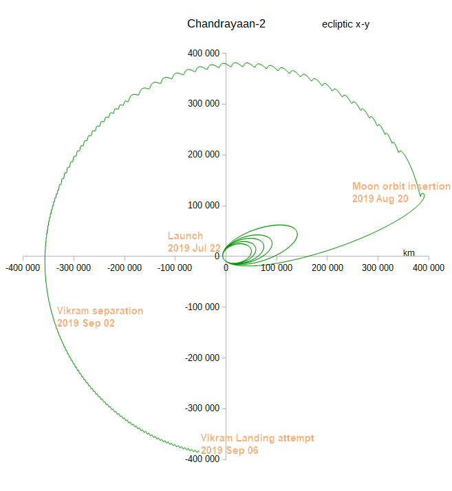 Chandrayaan-2 launch 2019-07-22 trajectory